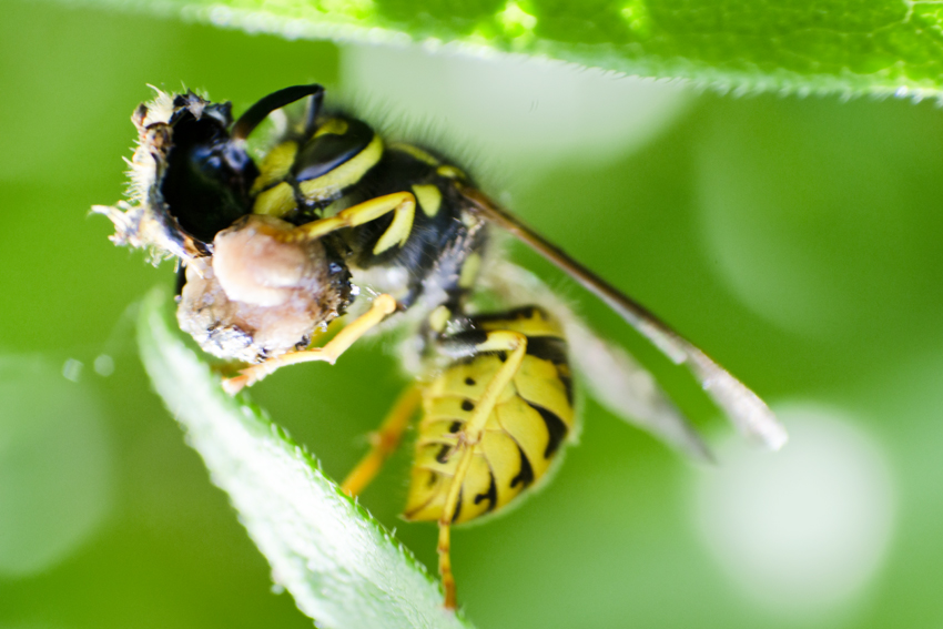 A wasp eats a furry meat ball.